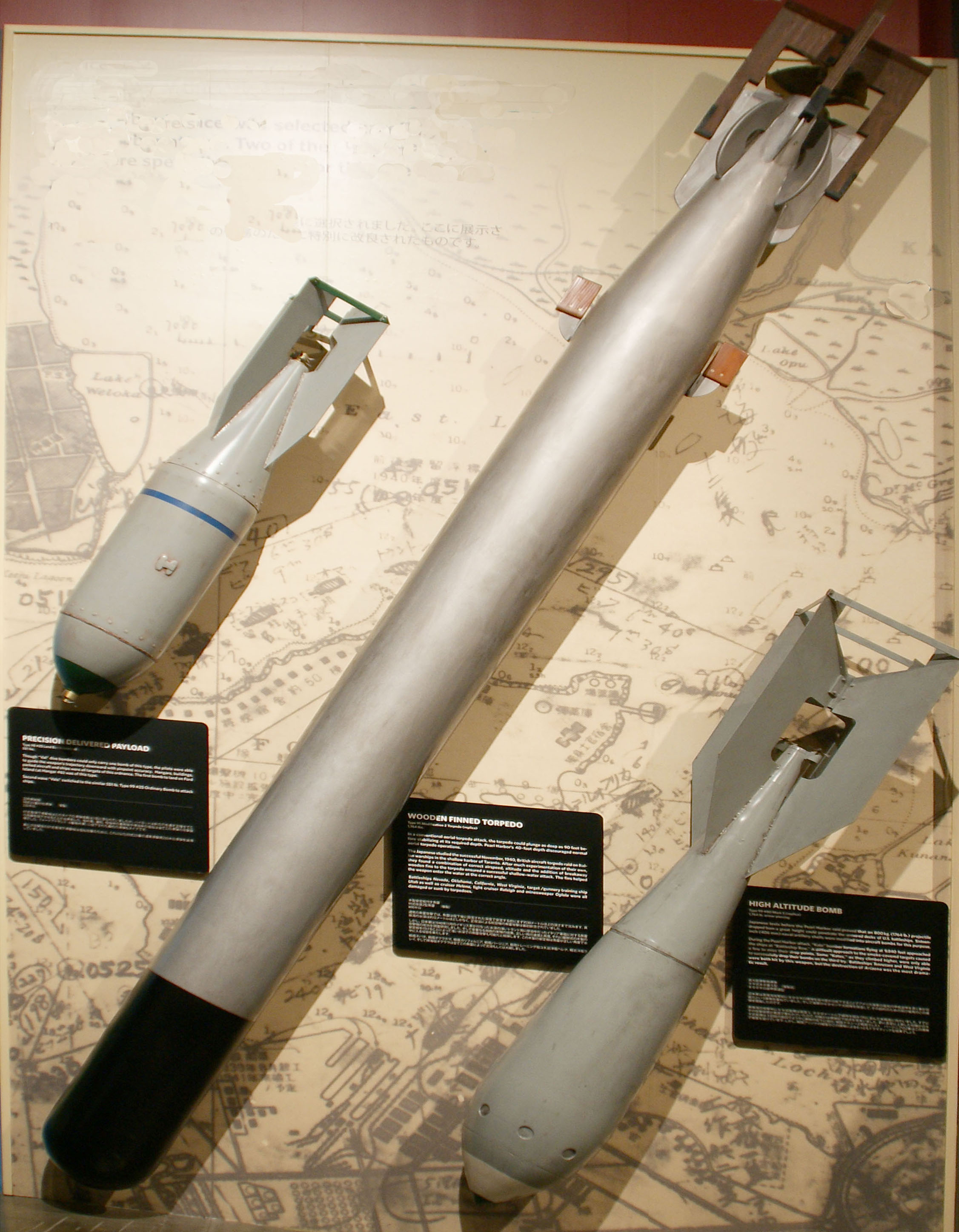 Replicas of World War II aerial munitions used by the Japanese navy in the Pearl Harbor Attack on display at Pacific Aviation Museum, Pearl Harbor, Hawaii. Left: Type 98 #25 land bomb (replica) 551 pounds. Val bombers targeted Pearl harbor hangers, parked aircraft buildings and ships with this bomb. Middle: Type 91 modification 2 Torpedo “Wooden Finned Torpedo” 1764 pounds. (Replica) Breakaway wooden fins made sure that torpedo entered the shallow water of Pearl harbor at the proper angle. Right: High Altitude bomb. Type 99 #80 Mark 5 (replica). 1764 pound, armor piercing. Modified from 16 inch naval artillery shells. Battleships Tennessee, West Virginia, and Arizona were hit by this bomb released by Kate bombers at 10,000 feet.